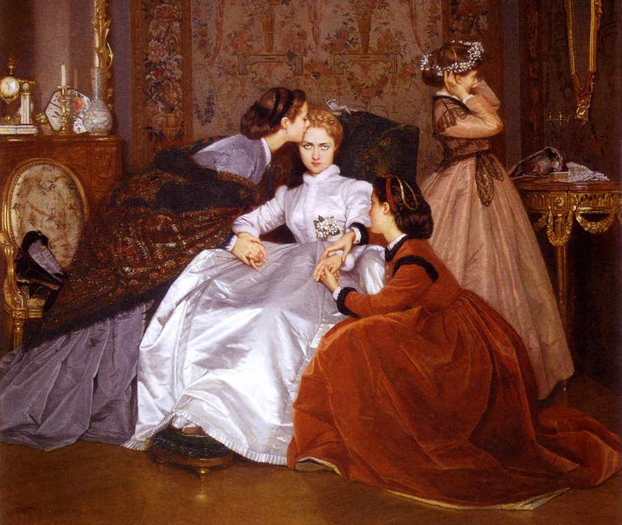 Detail of The Reluctant Bride